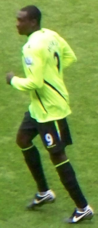 Emile Heskey. Image cropped from original at flickr.